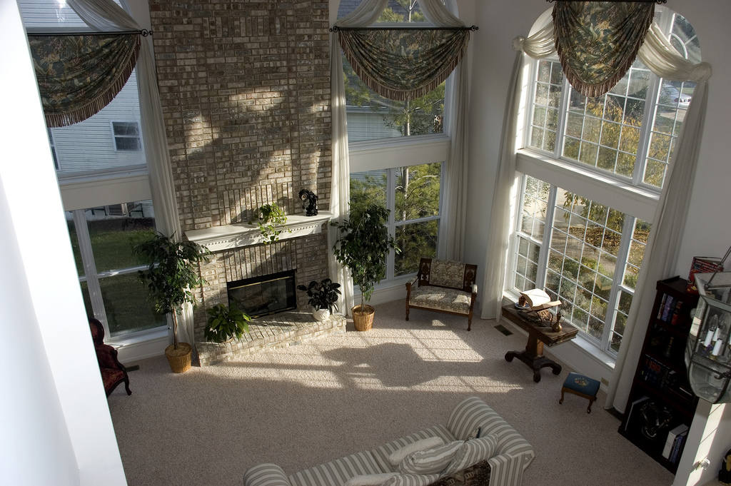 A typical great room.